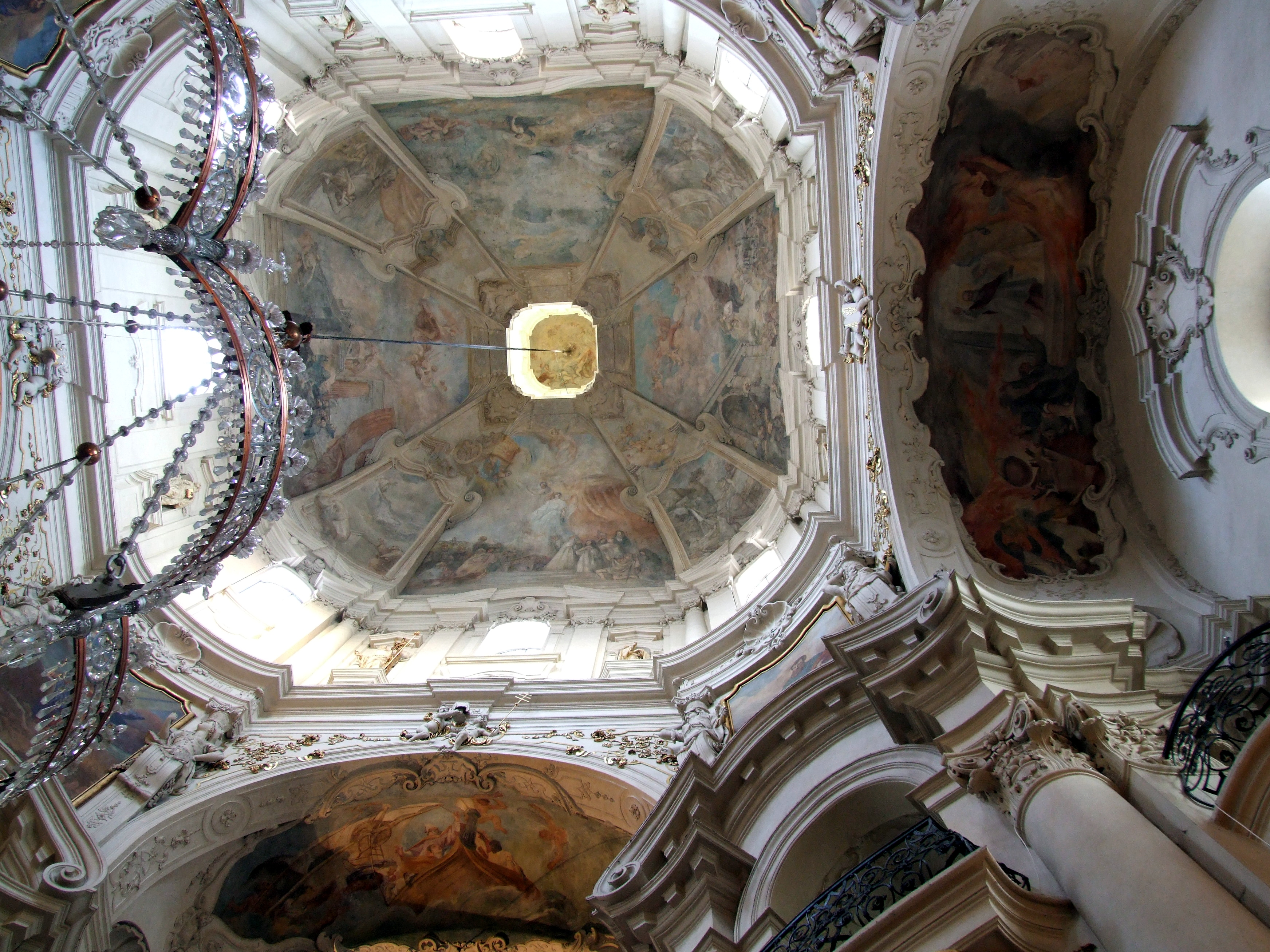 Saint Nicholas church's vault. Prague Author: Mohylek 17:12, 17 November 2006 (UTC)